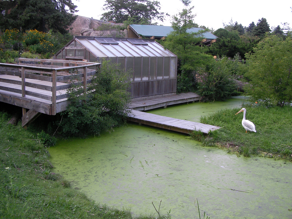 A water feature at Racine Zoo, Racine, Wisconsin, USA.